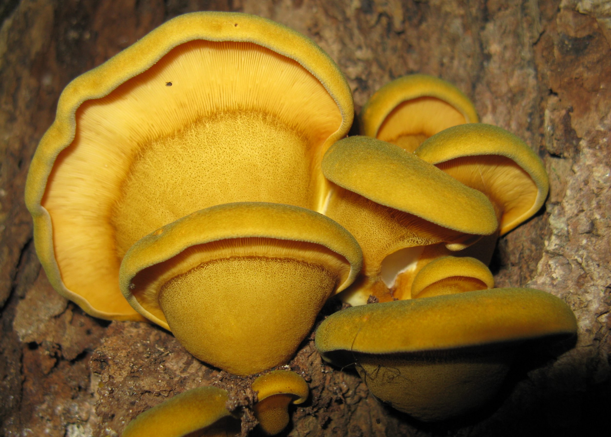 Panellus serotinus ((Fr.) Kuh.) Notes: Panellus serotinusI%u2019ve been finding this fungus frwequently over the past two weeks, but always much smaller than this specimen. The largest mushroom in these photos had a cap that was about 4 in. wide. Before this I hadn%u2019t found an example with a cap wider than 1 in. It was found growing on a sugar maple.